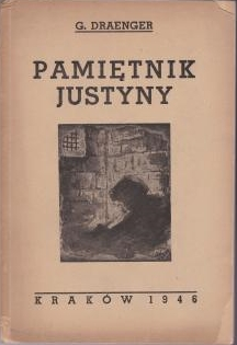 Cover of Pamietnik Justyny (Justyna's Narrative), a diary by Gusta Dawidson Draenger, published in Poland in 1946: cropped version